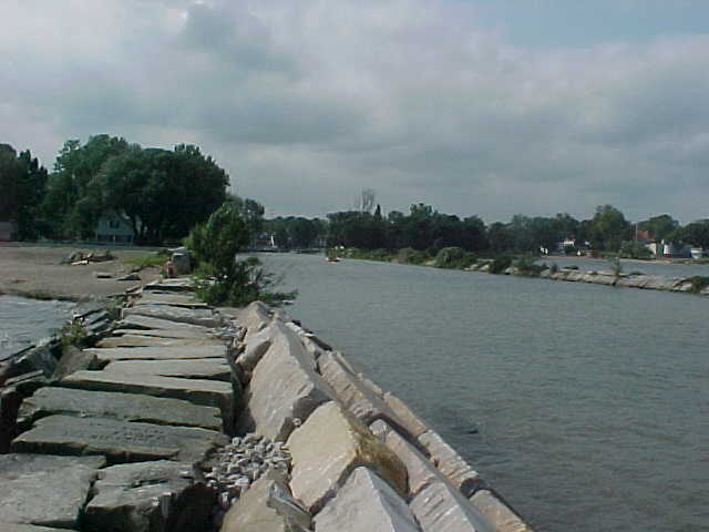 Vermilion, Ohio, Vermilion Harbor's entrance in 2004.